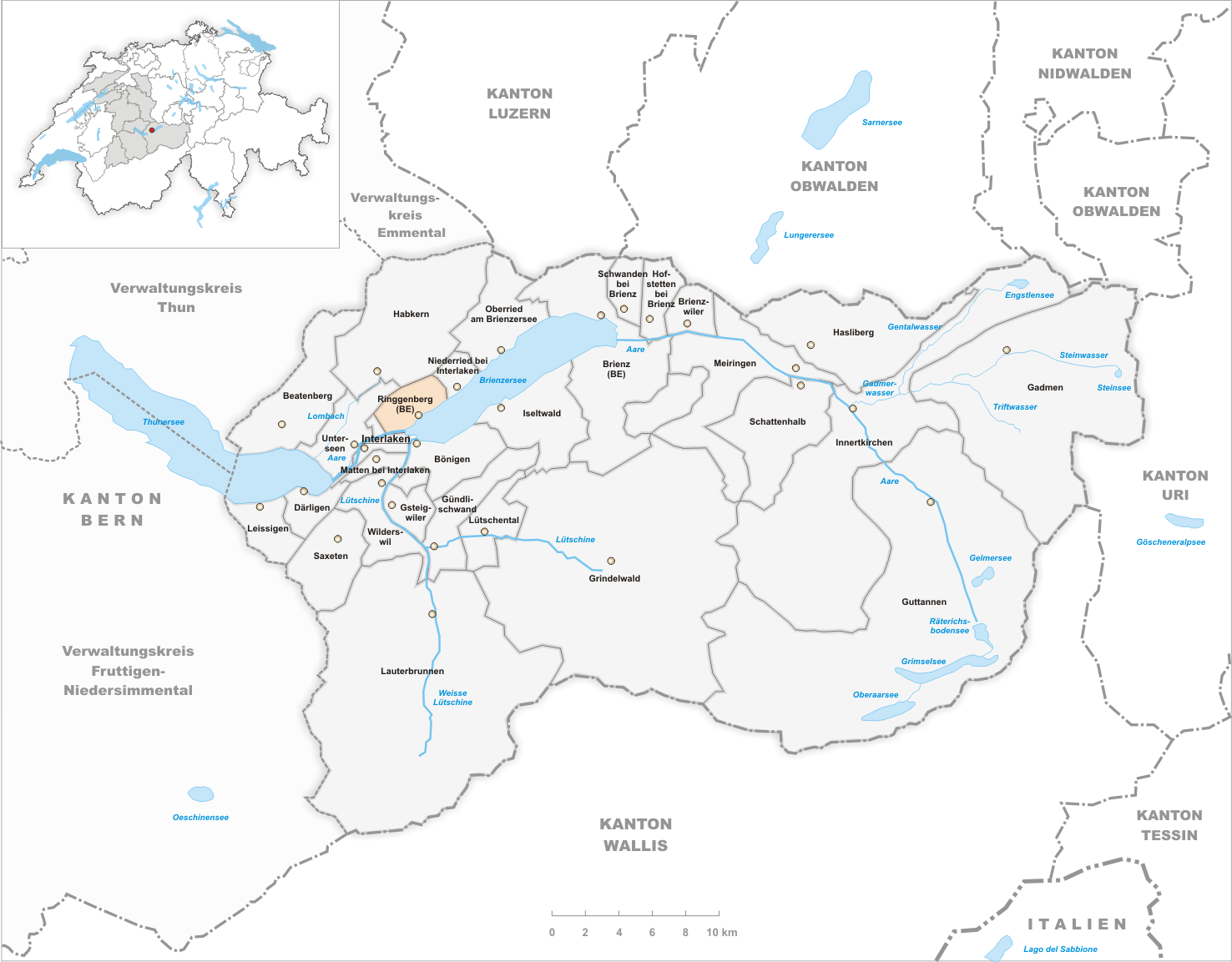 Municipality Ringgenberg